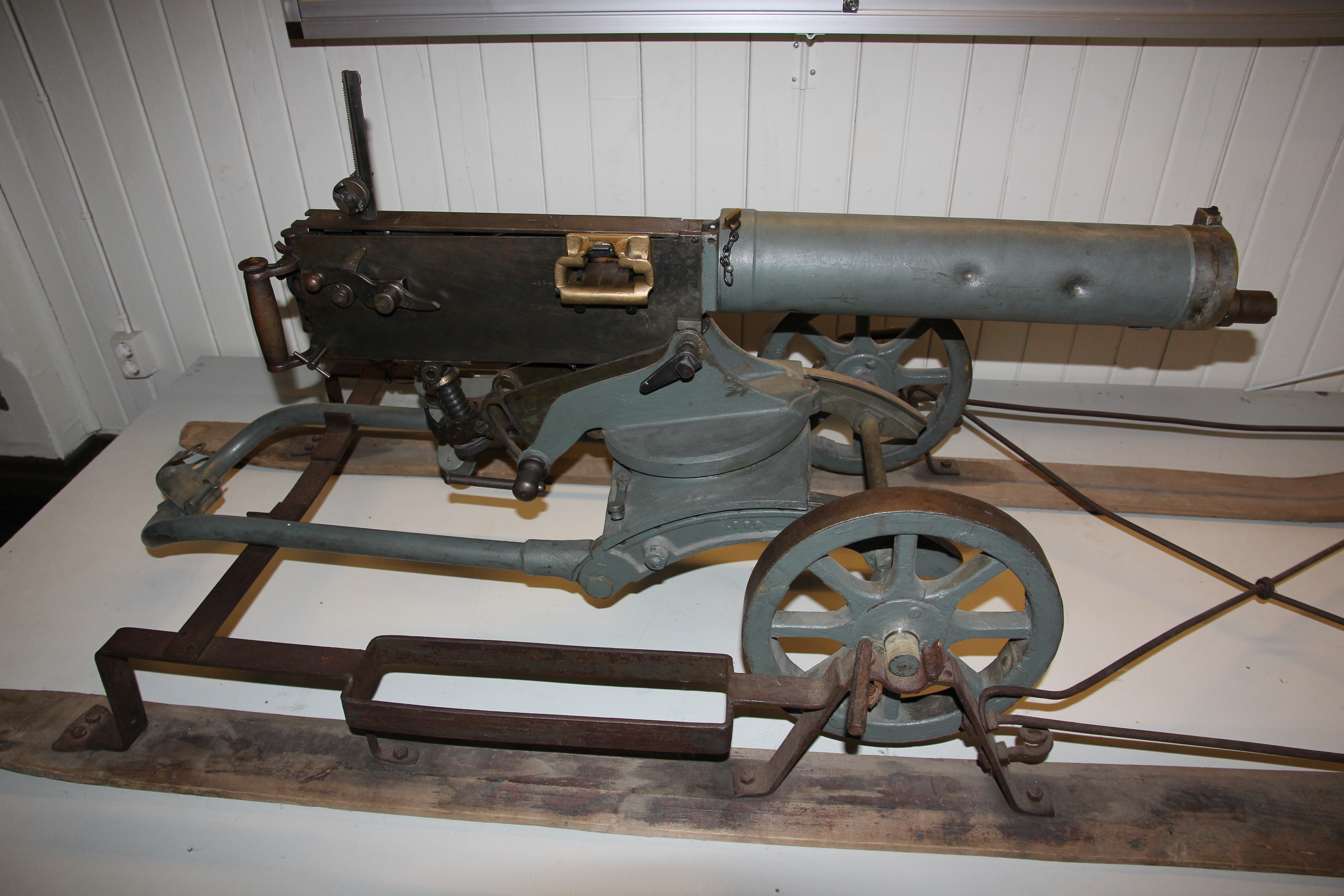 Russian 7.62 mm Maxim m/1905 machine gun on Finnish made sledge carriage from the Finnish civil war. Photographed in Mikkeli Infantry museum.